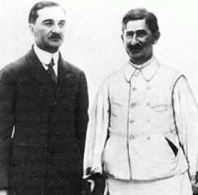 Romanian politicians Iuliu Maniu and Ion Mihalache, whose parties joined to form the National Peasant Party in 1926.